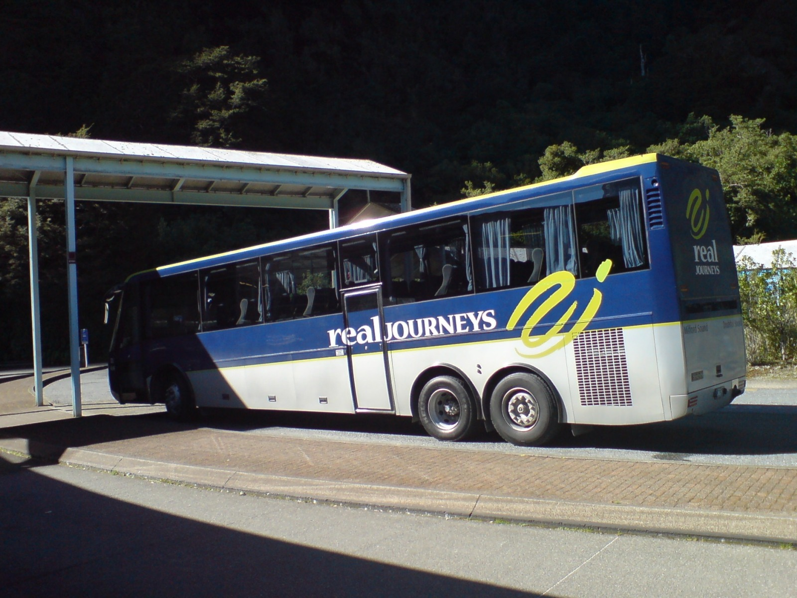 A Real Journeys bus at the Milford Sound visitor centre, New Zealand. The bus is specially constructed to improve the view through its glass roof.